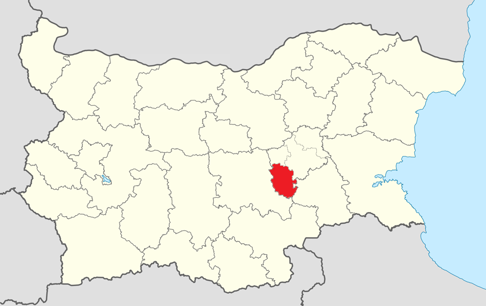 Location map of Nova Zagora Municipality within Bulgaria and Sliven Province.